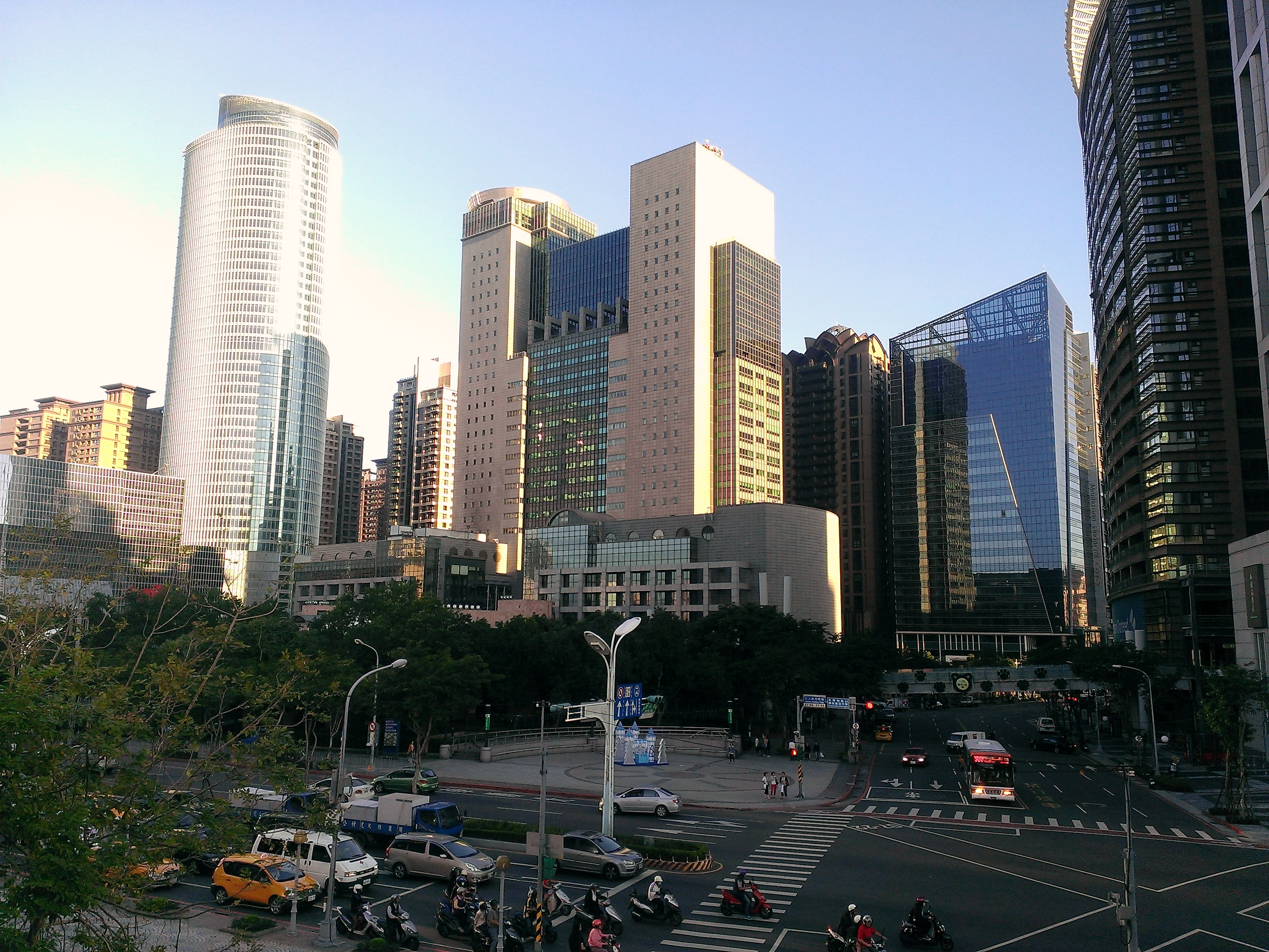 New Taipei City Hall, Banqiao District, New Taipei City.